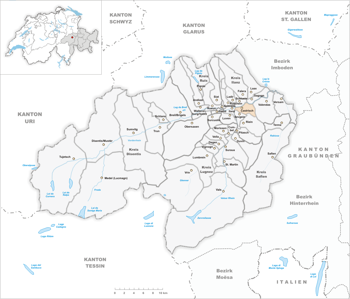 Municipality Castrisch